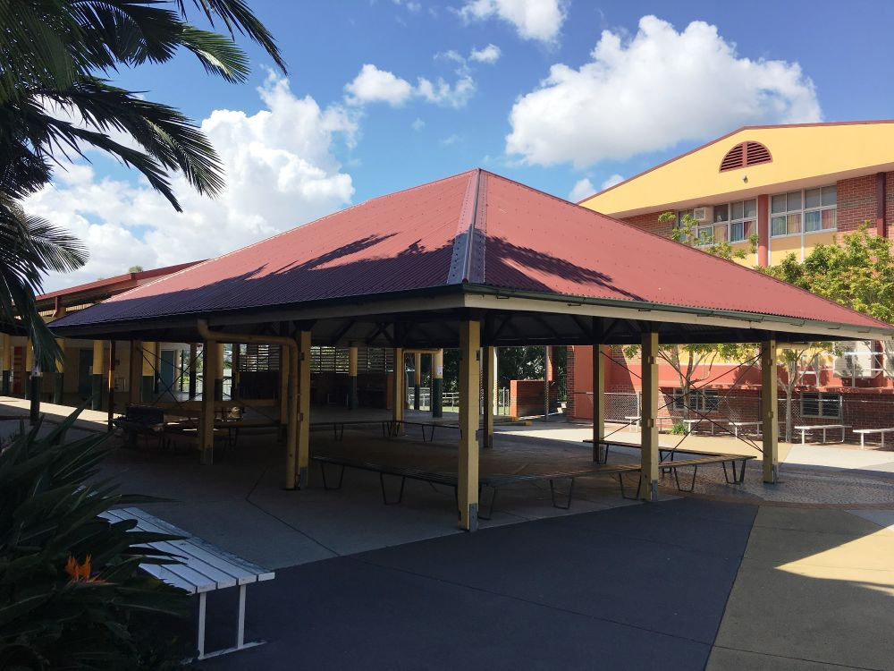 1907 playshed from NW